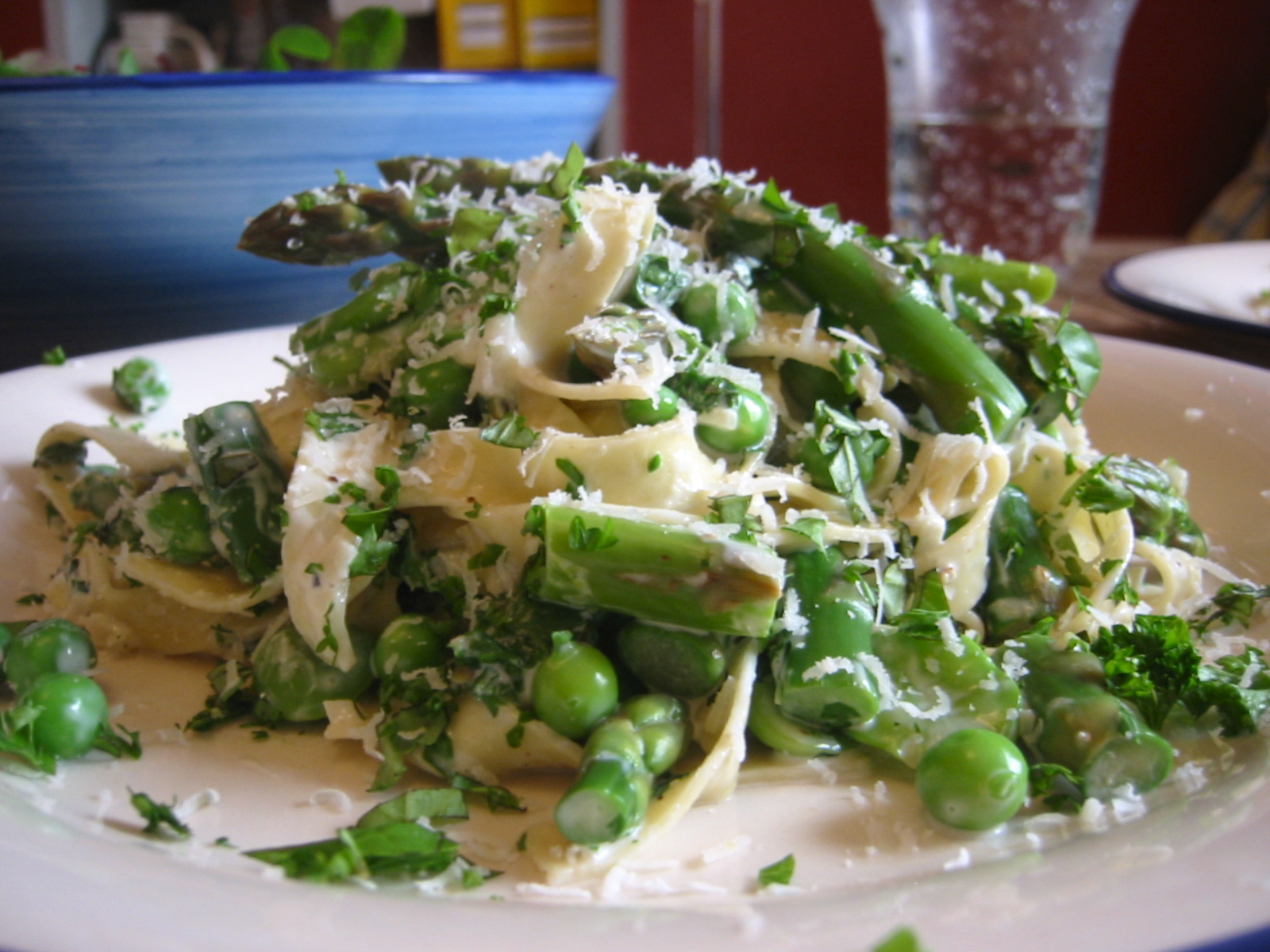 Tagliatelle with broad beans, asparagus and peas.